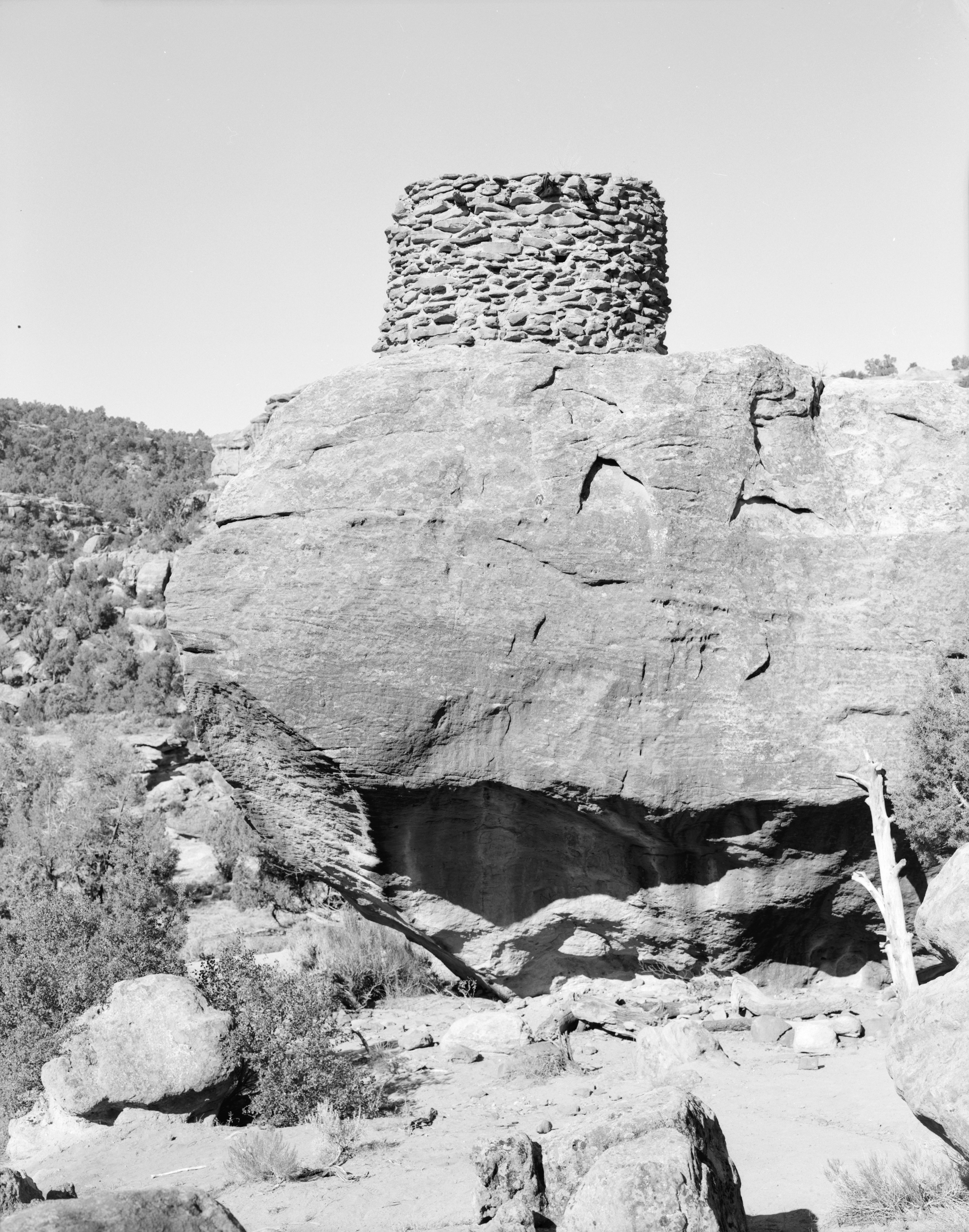 Simon Canyon Pueblito, Approximately 0.6 mile north of Simon Canyon confluence with San Juan River, Blanco vicinity, San Juan County, NM.